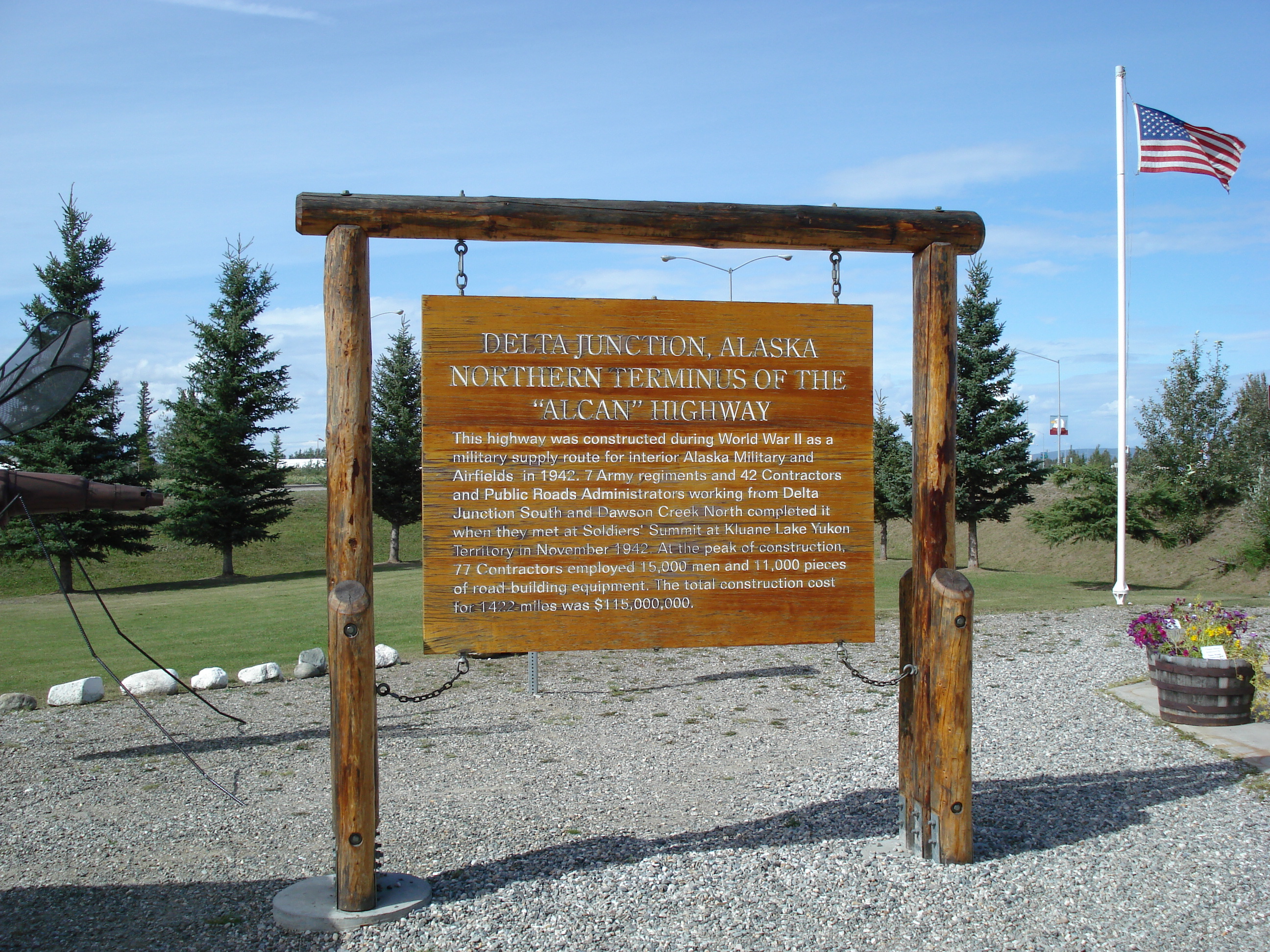 Signpost marking the end of the AlCan (Alaska-Canada, or Alaska Highway), at the Delta Junction tourist information center. The signpost reads:This highway was constructed during World War II as a military supply route for interior Alaska Military and Airfields in 1942. 7 Army regiments and 42 Contractors and Public Roads Administrators working from Delta Junction South and Dawson Creek North completed it when they met at Soldiers' Summit at Kluane Lake Yukon Territory in November 1942. At the peak of construction, 77 Contractors employed 15,000 men and 11,000 pieces of road building equipment. The total construction cost for 1422 miles was $115,000,000.